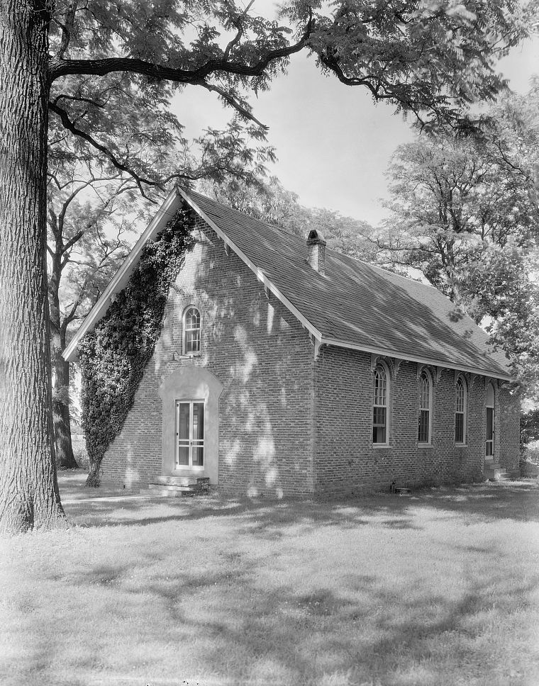 Black-and-white photographic view of the exterior of Westover Church, Charles City Courthouse vicinity, Charles City County, Virginia, by the American photographer and photojournalist Frances Benjamin Johnston. Dated 1930. The church was used in the early 19th century as a barn, and was later used as a stable by Union forces during the Civil War. The church was restored in the interim by members of the Berkeley and Shirley families, some of whom are buried within the churchyard. In 1867, the church was again used for worship, and was restored again in 1909. Photograph forms part of the Frances Benjamin Johnston archives at the Library of Congress, which were donated in perpetuity to the Library by the photographer, hence there are no restrictions on publication. Image courtesy of the Library of Congress, Prints and Photographs Division, Washington, D.C.